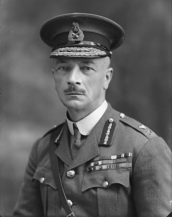 Portrait of Sir Lovick Friend (1856-1944). Official War Office Photograph. Pre-1955 so in the public domain.